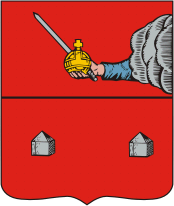 Solvychegodsk (Arkhangelsk oblast), coat of arms (1780)